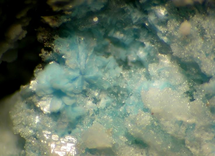 Paratooite-(La) Locality: Paratoo copper mine, Yunta, Olary Province, South Australia, Australia (Locality at ) Field of view 4 mm. Specimen and photo Leon Hupperichs. My thanks to Volker Hoppe for this very fine exchange specimen.